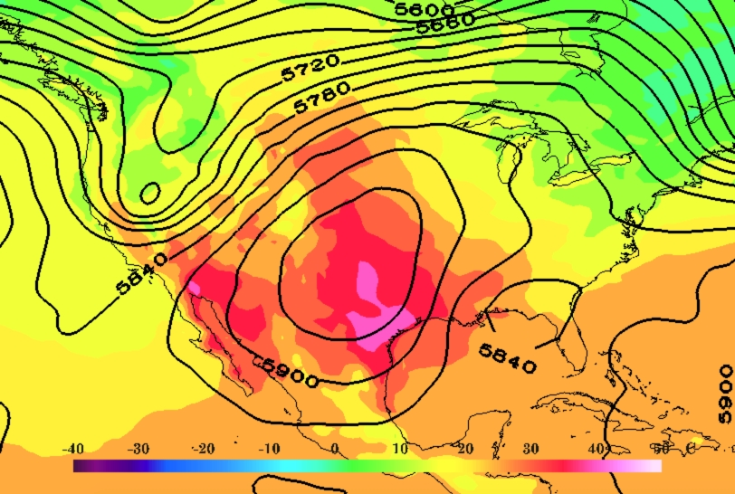 MERRA data that shows the 500mb height field and 2m Temperature at 0z September 6th, 2000 over the central US.